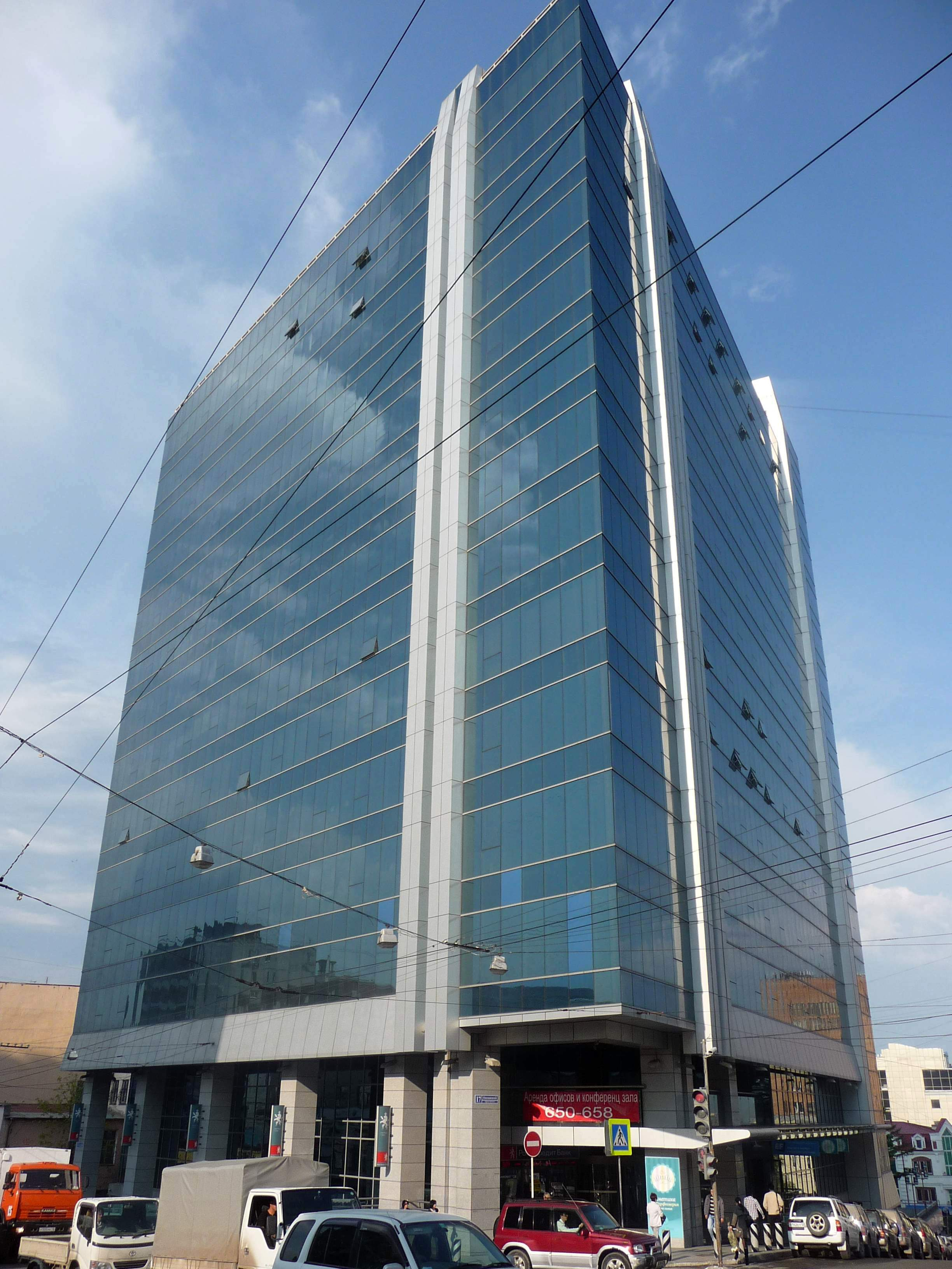 «Fresh_Plaza»_Business_Center_Vladivostok